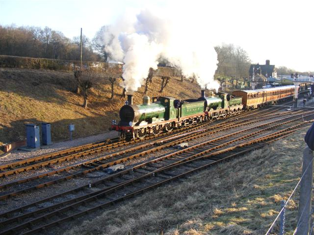 SECR 592 (front) and 65 leaving Horsted Keynes